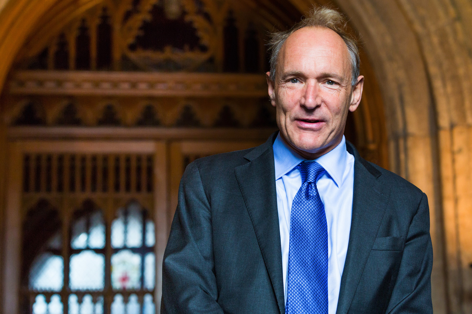 Sir Tim arriving at the Guildhall to receive the Honorary Freedom of the City of London